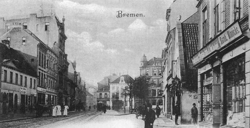 The street Ostertorsteinweg in Bremen around 1900, just before the electrification of the streetcar. View in direction of the small marketplace at the junction of Ostertorsteinweg with Hohenpfad (today named Ulrichsplatz).